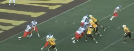 Boise State on offense against Wyoming. Quarterback Kellen Moore handles the ball to Doug Martin.